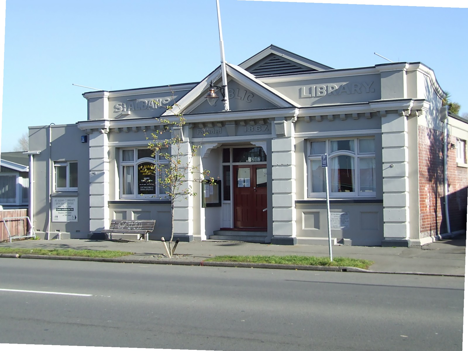 St. Albans Library, now a community centre